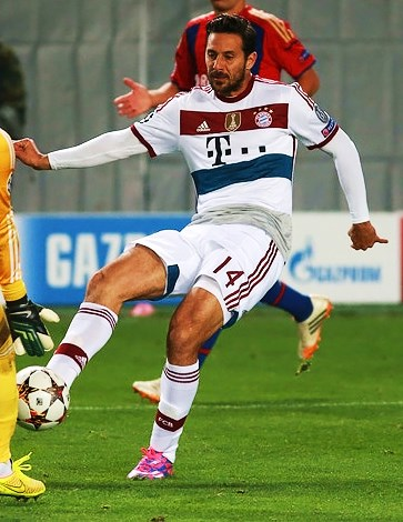 Claudio Pizarro